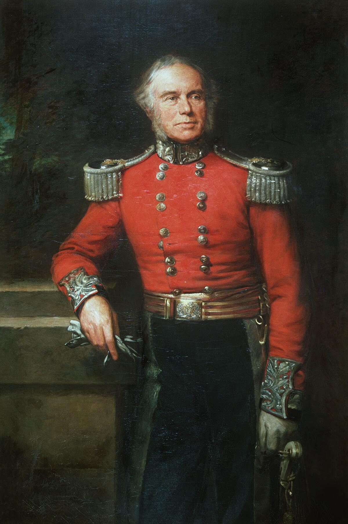 A painting from the Framed Works of Art collection at the National Library of wales.